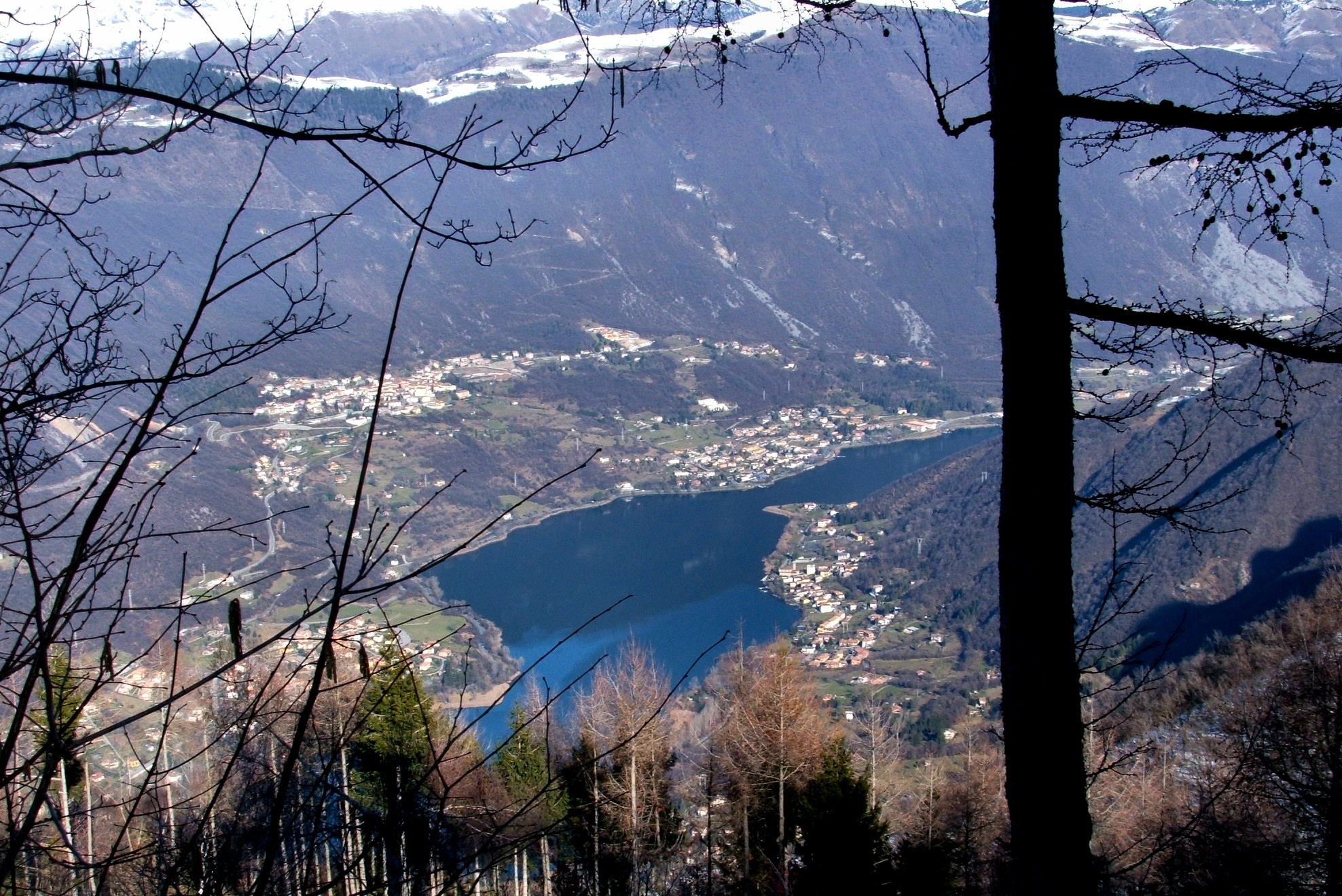 Endine lake - Lombardy - Italy. You can see san Felice al lago - Endine Gaiano (right) and Ranzanico (left).